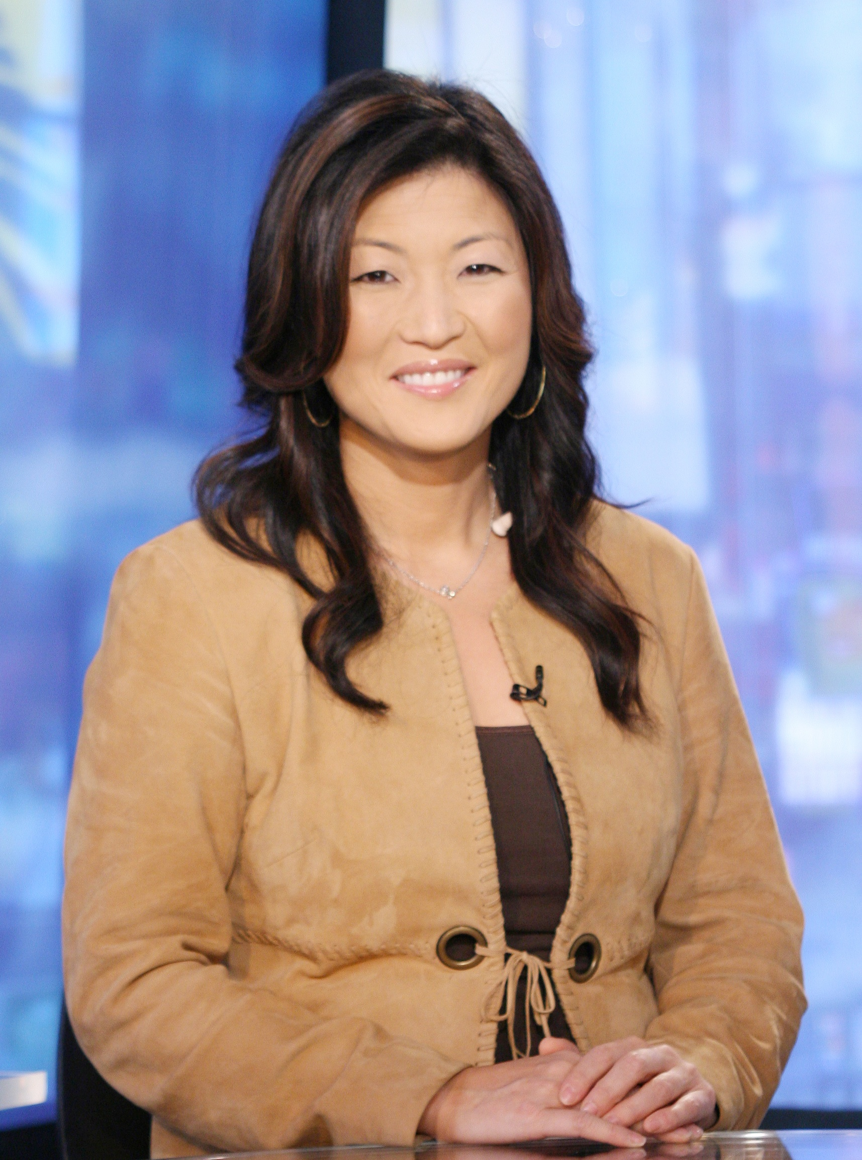 Photograph of ABC News Good Morning America news anchor Juju Chang.